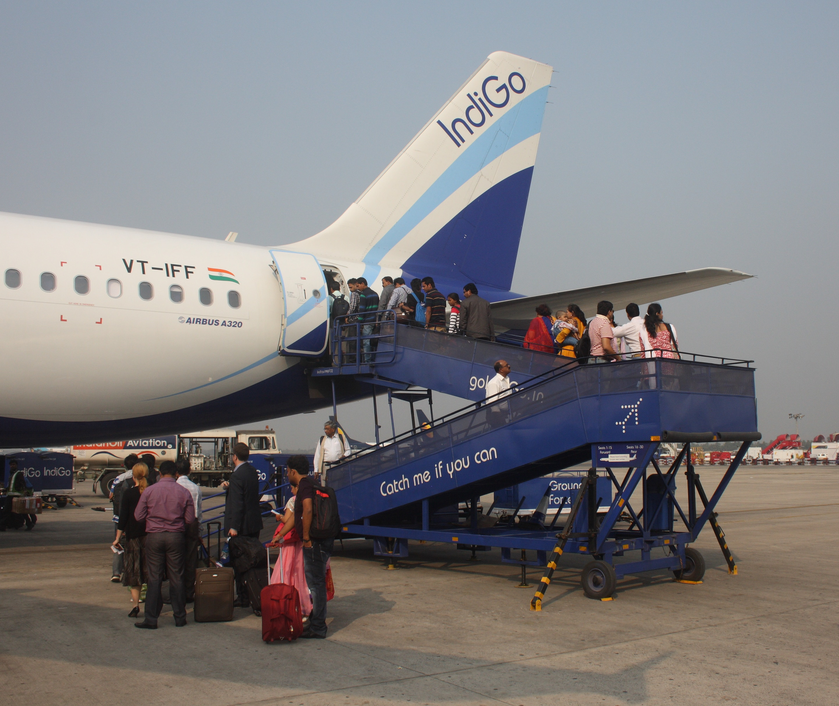 Ramp for better wheelchair access for an Airplane of the indian Airline IndiGo.